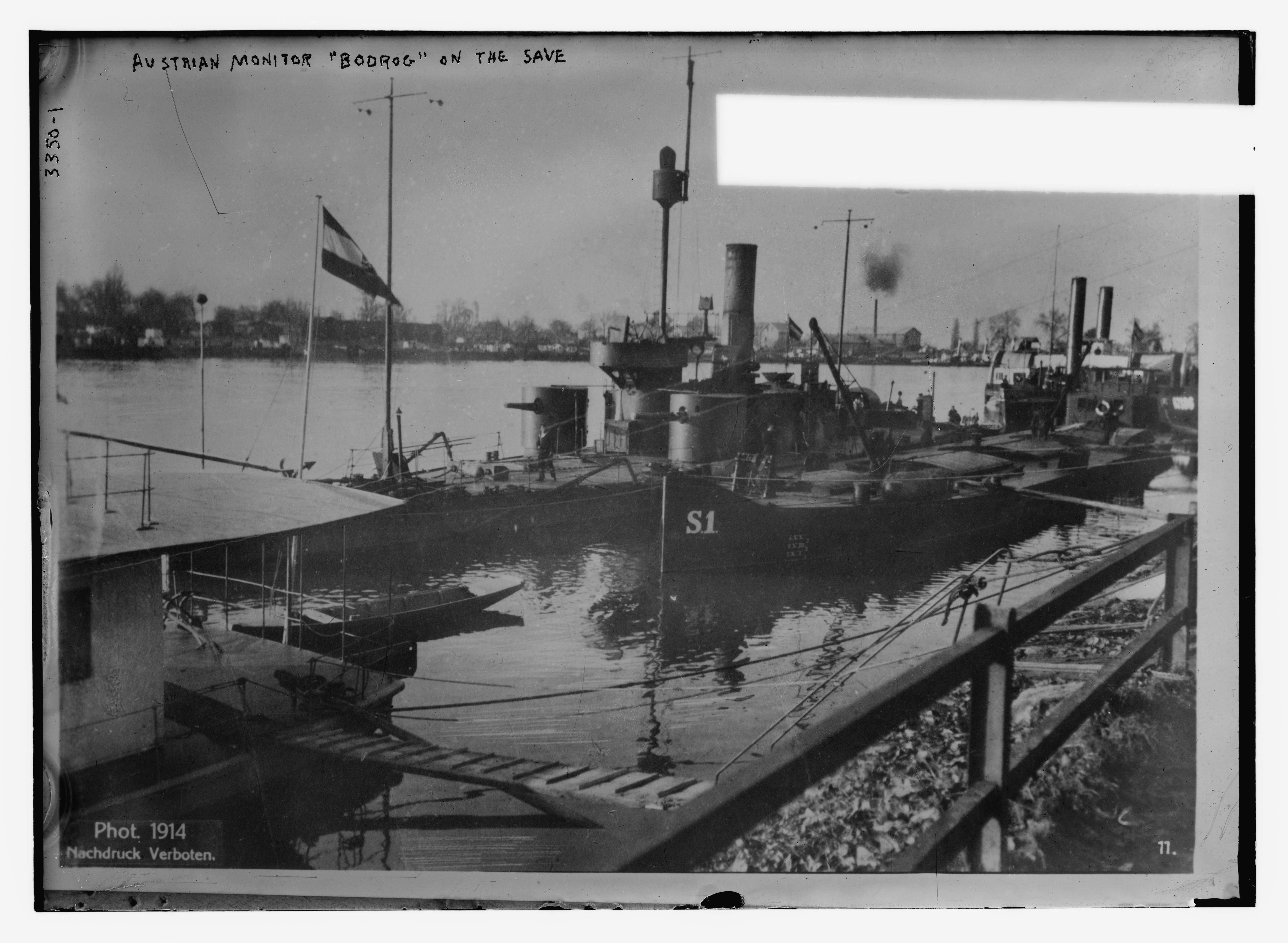 Title: Austrian monitor BODROG on the Save [i.e., Sava River] Abstract/medium: 1 negative : glass ; 5 x 7 in. or smaller.